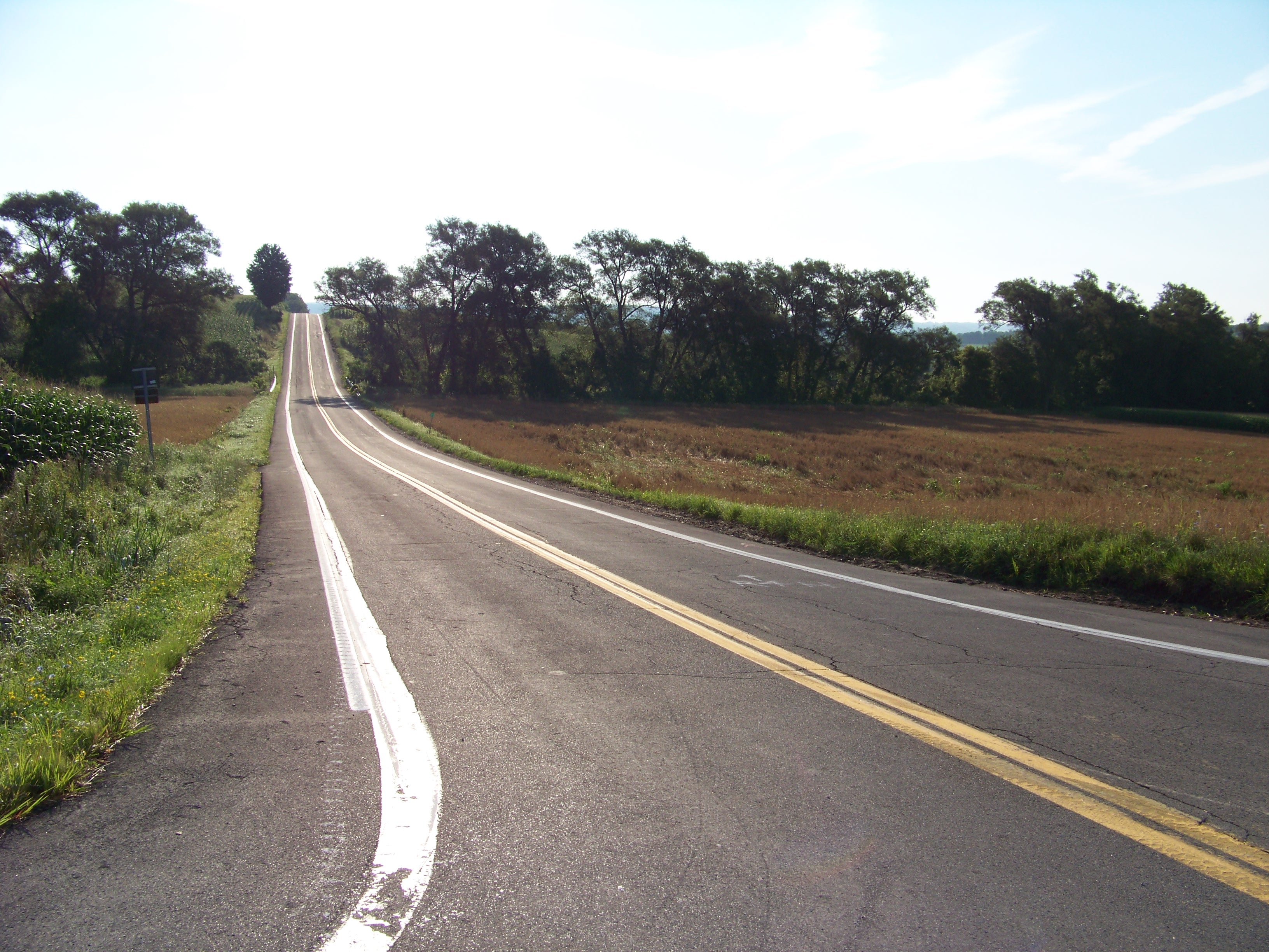 NY 174 heading east toward Otisco Lake